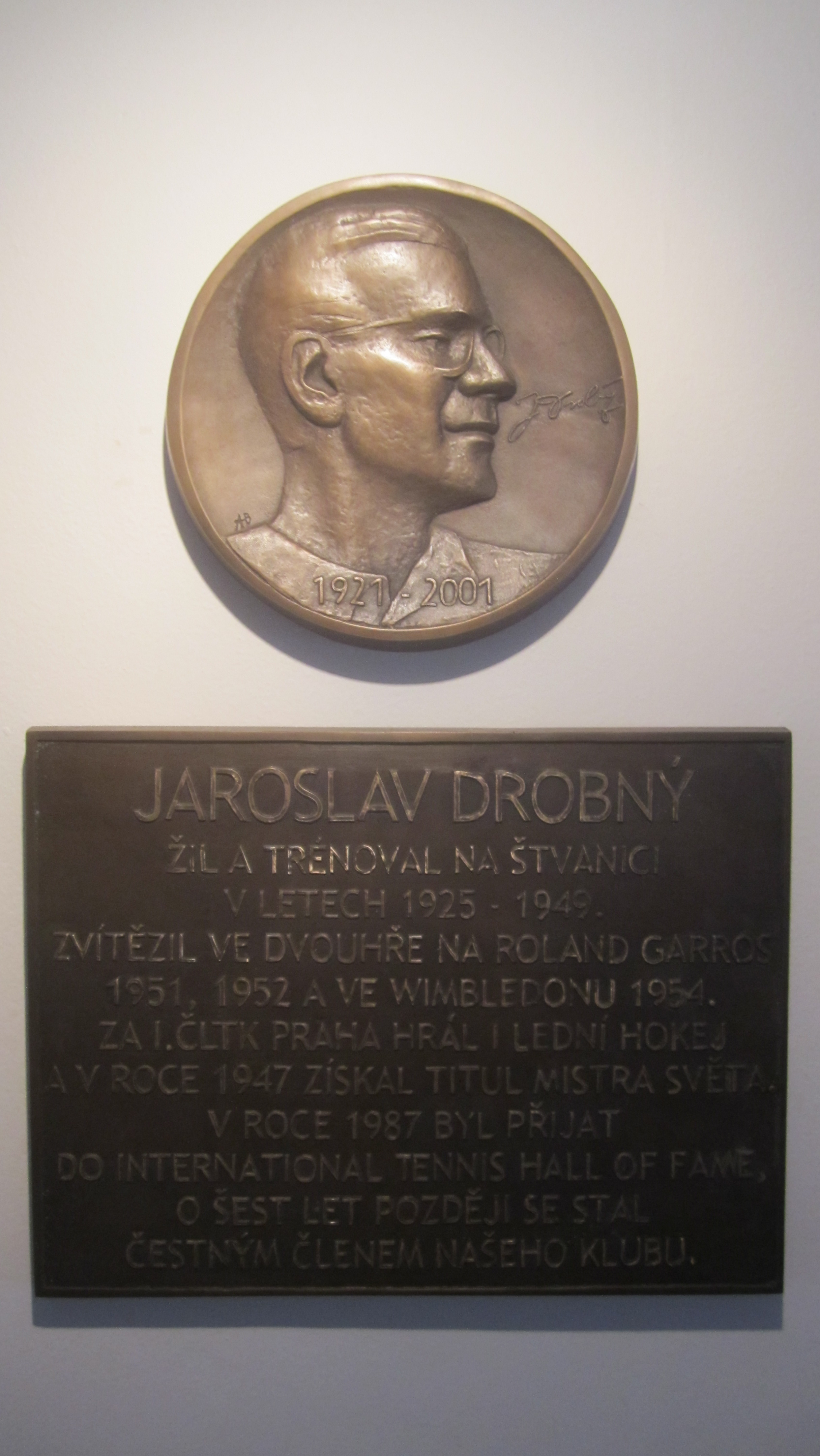 The commemorative plague for Jaroslav Drobny at the 1st Czech Lawn Tennis Club on the Stvanice Island in Prague, enacted om June 14, 2012 and unveiled by the Czech Republic president Vaclav Klaus. The text says: "Jaroslav Drobny lived and practiced at Stvanice from 1925-1949. He won the singles competition at Roland Garros in 1951, 1952 and in Wimbledon in 1954. For the 1st Czech Lawn Tennis Club, he also played ice hockey and won the World Championship title in 1947. He's been inducted into the International Tennis Hall of Fame in 1987. Six years later, he became an honorary member of our club."